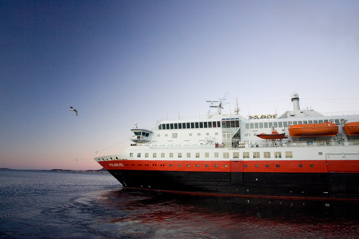 The MS Polarlys in the harbour of Ålesund